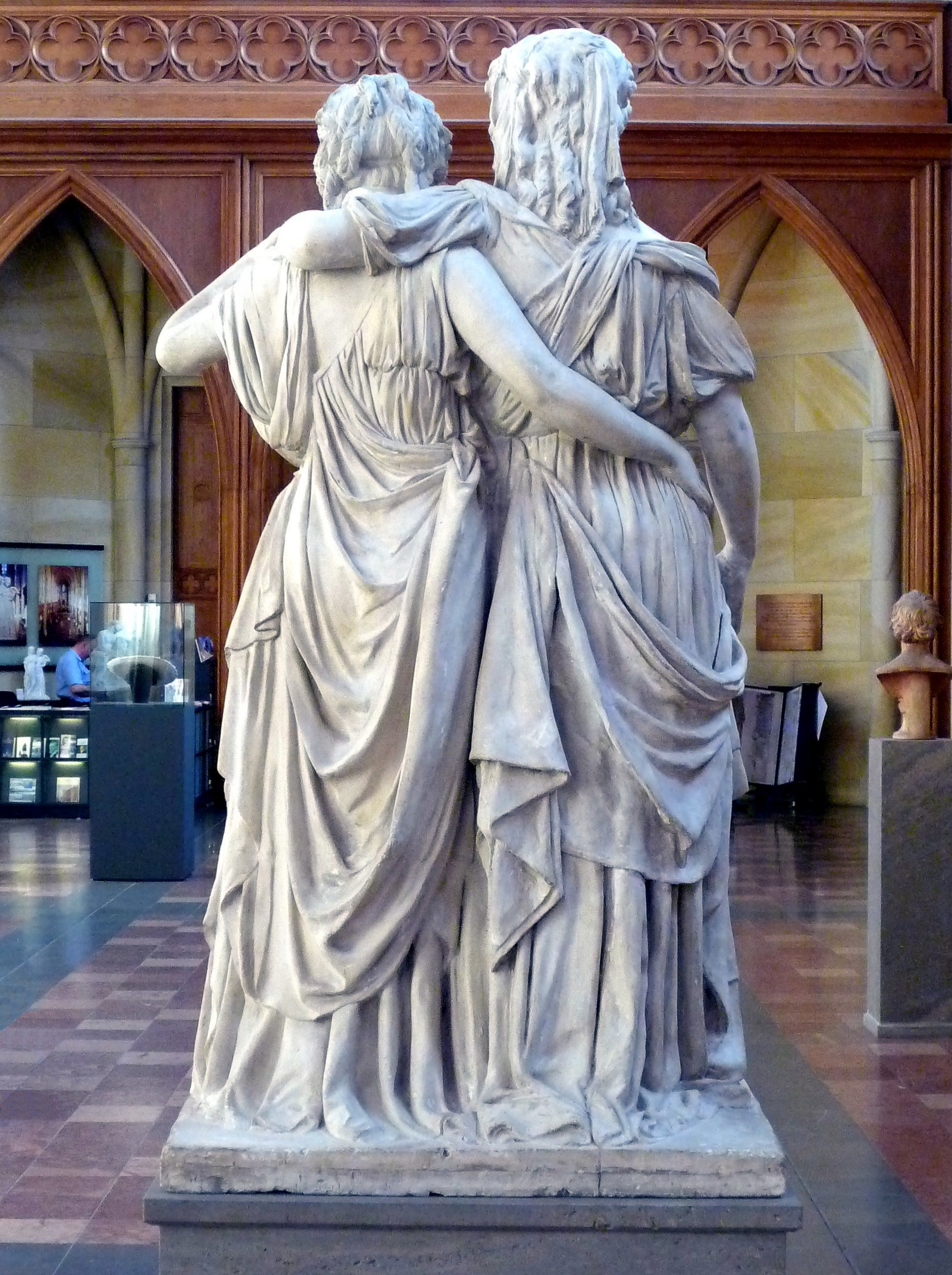 The "Prinzessinnengruppe" (Princess Luise von Mecklenburg-Strelitz and her sister Friederike) by Johann Gottfried Schadow, reverse side. Material: gypsum. Location: Berlin, "Friedrichswerdersche Kirche".